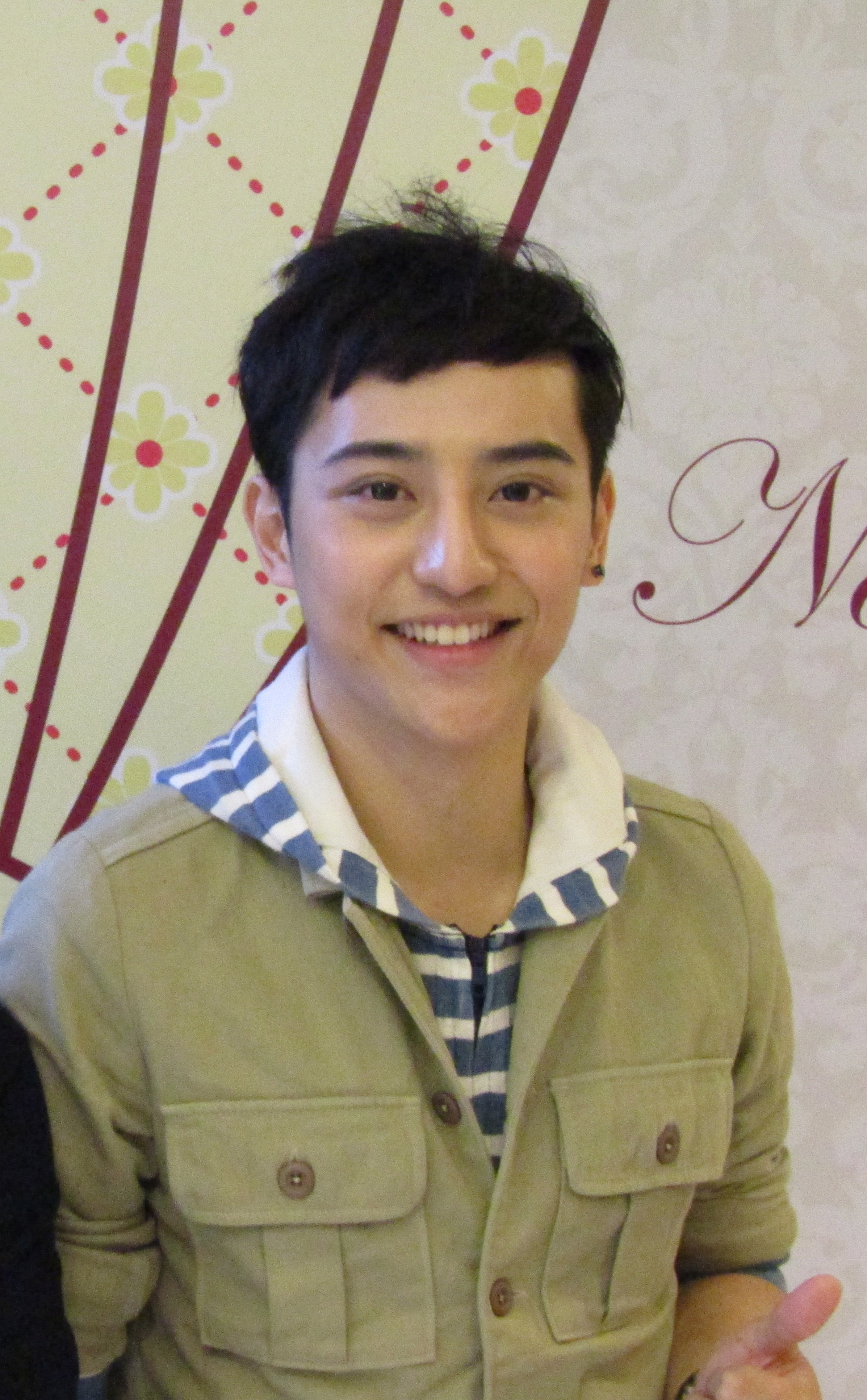 Kris Law is singing at Wonderful Worlds of Whampoa, Hung Hom